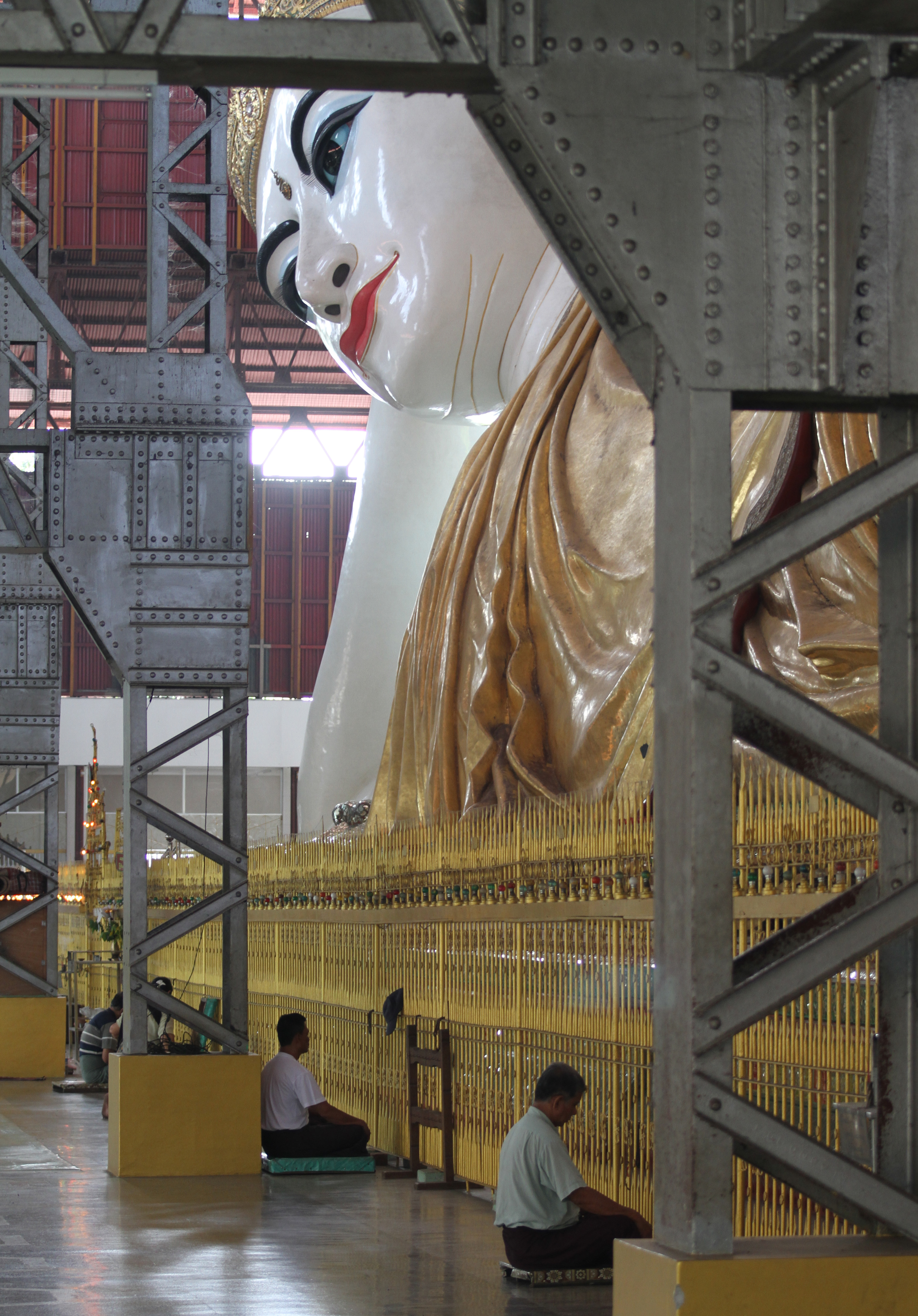 Chaukhtatgyi temple in Yangon in Myanmar.